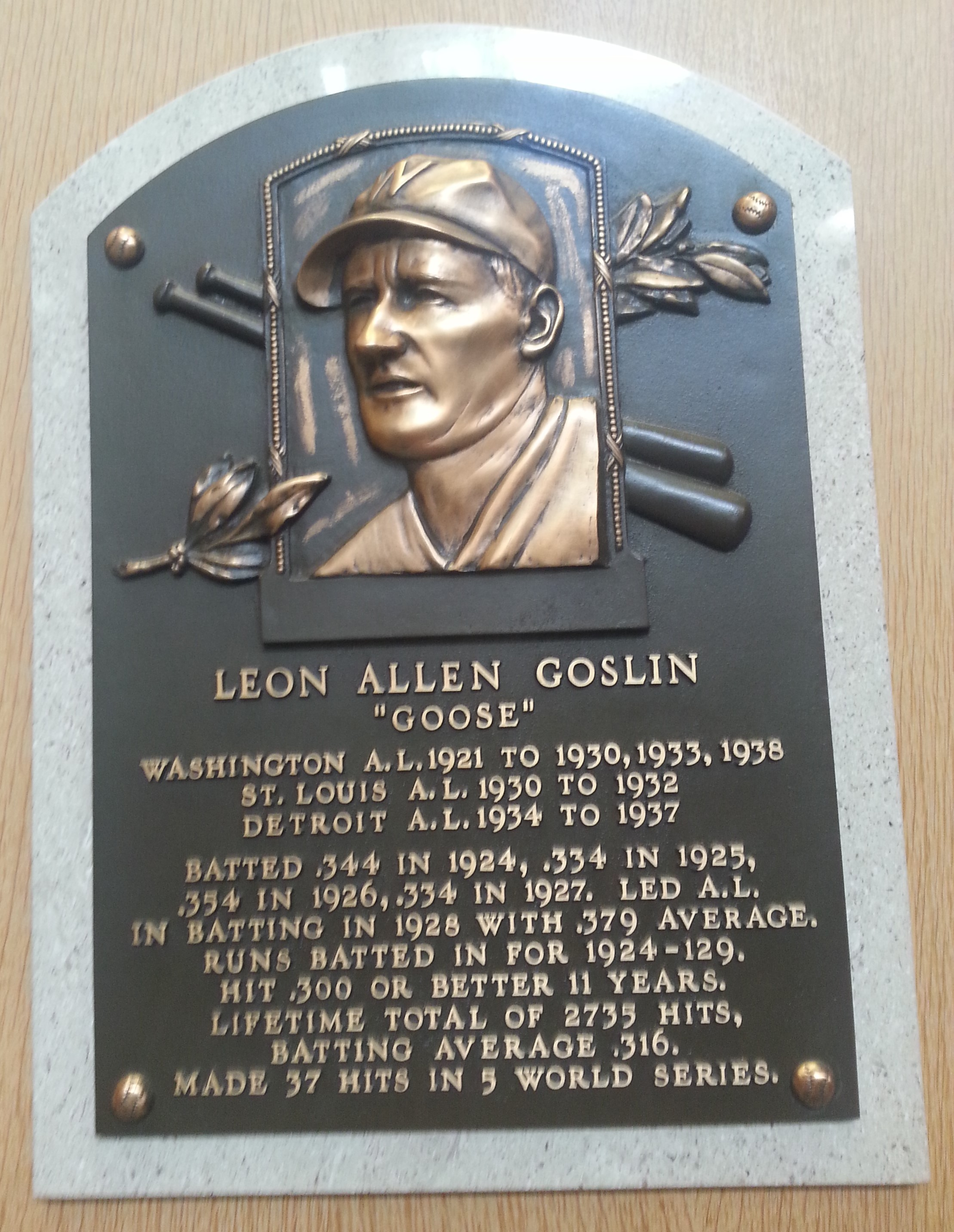 Goose Goslin plaque in the National Baseball Hall of Fame